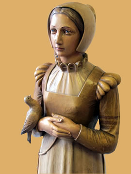 Anne Line Statue of St Anne Line from St Anne Line Junior School, Basildon, Essex.